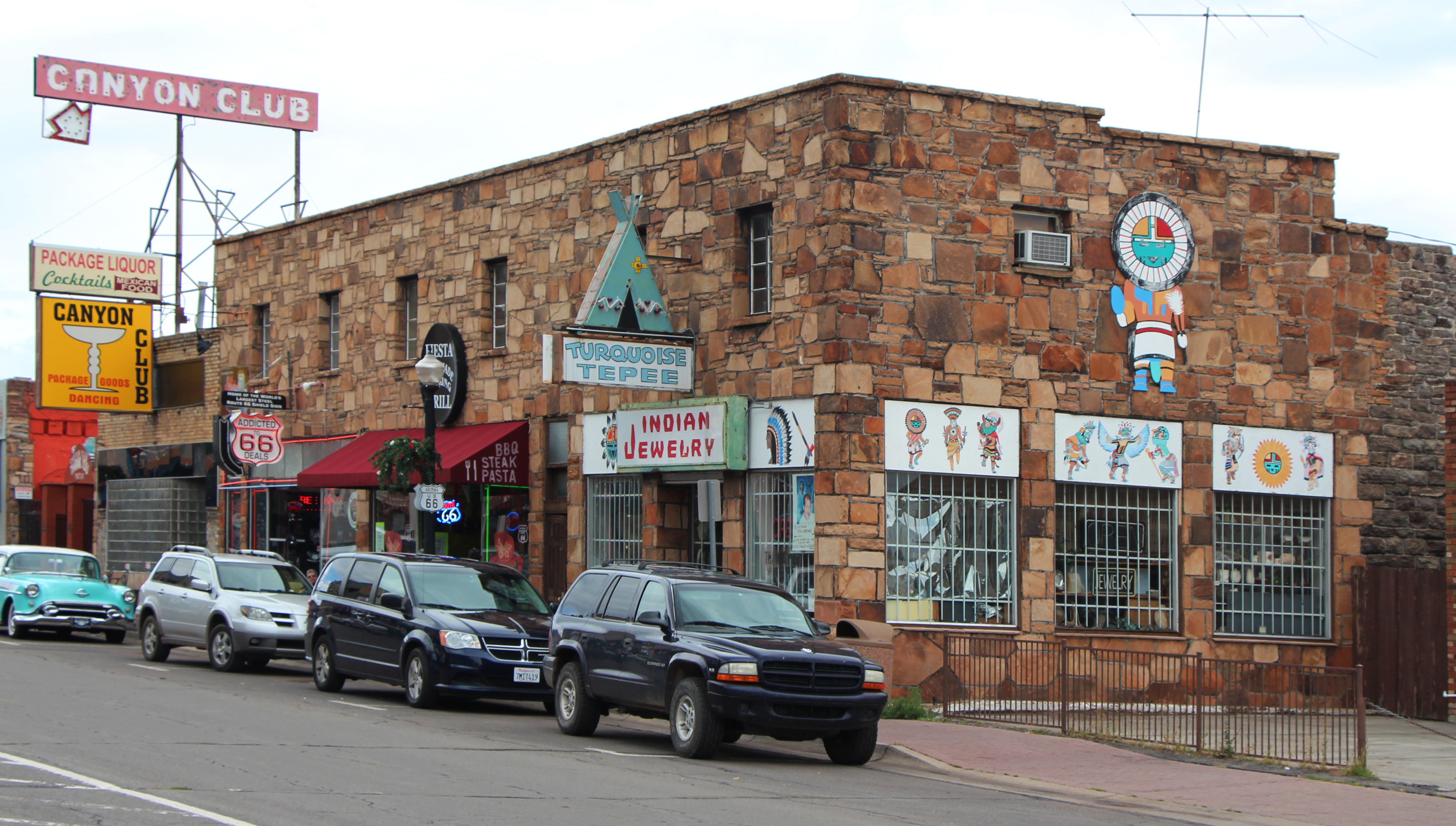 Bowden Building, 114 W. Route 66, Williams, AZ